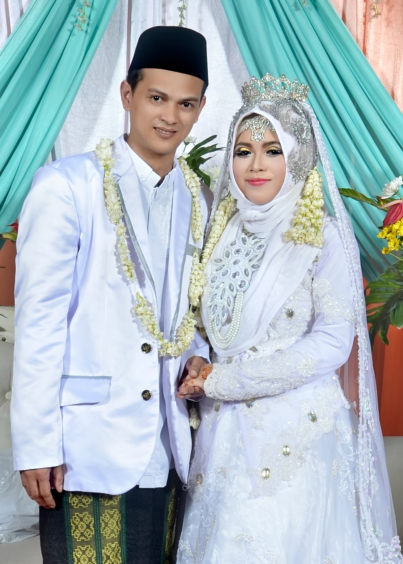 Traditional wedding of Bantenese muslim, Banten, Indonesia.